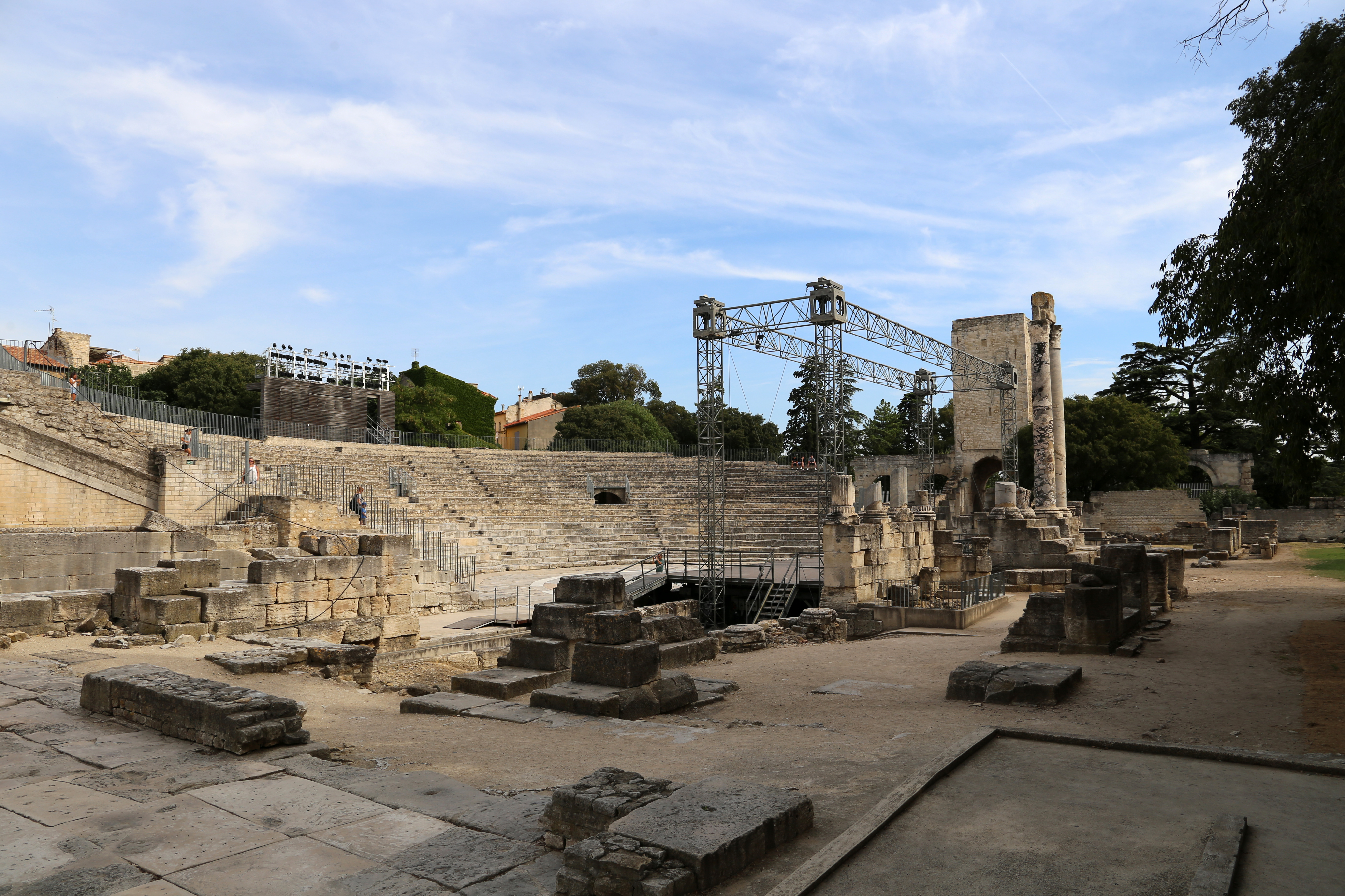 Théâtre gallo-romain d'Arles